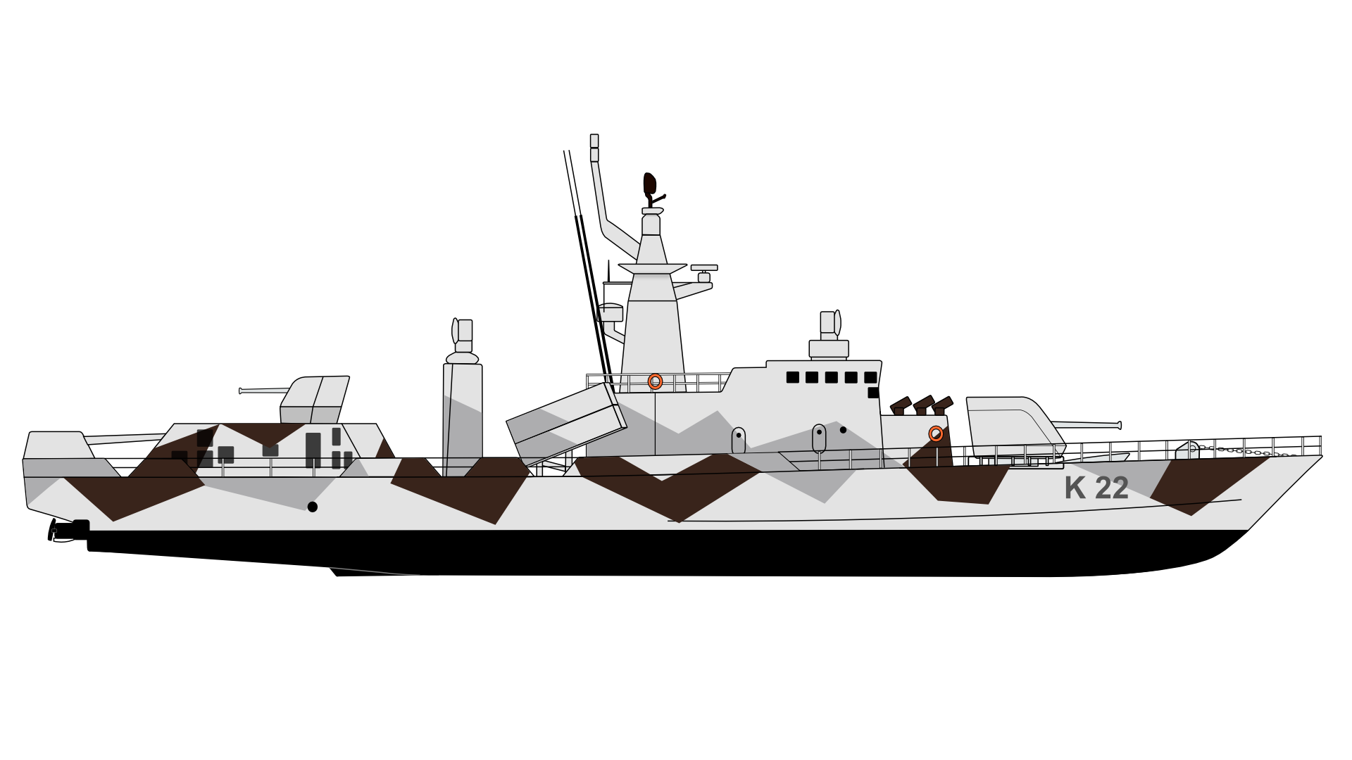 Swedish corvette HMS Gävle, commissioned in 1990.